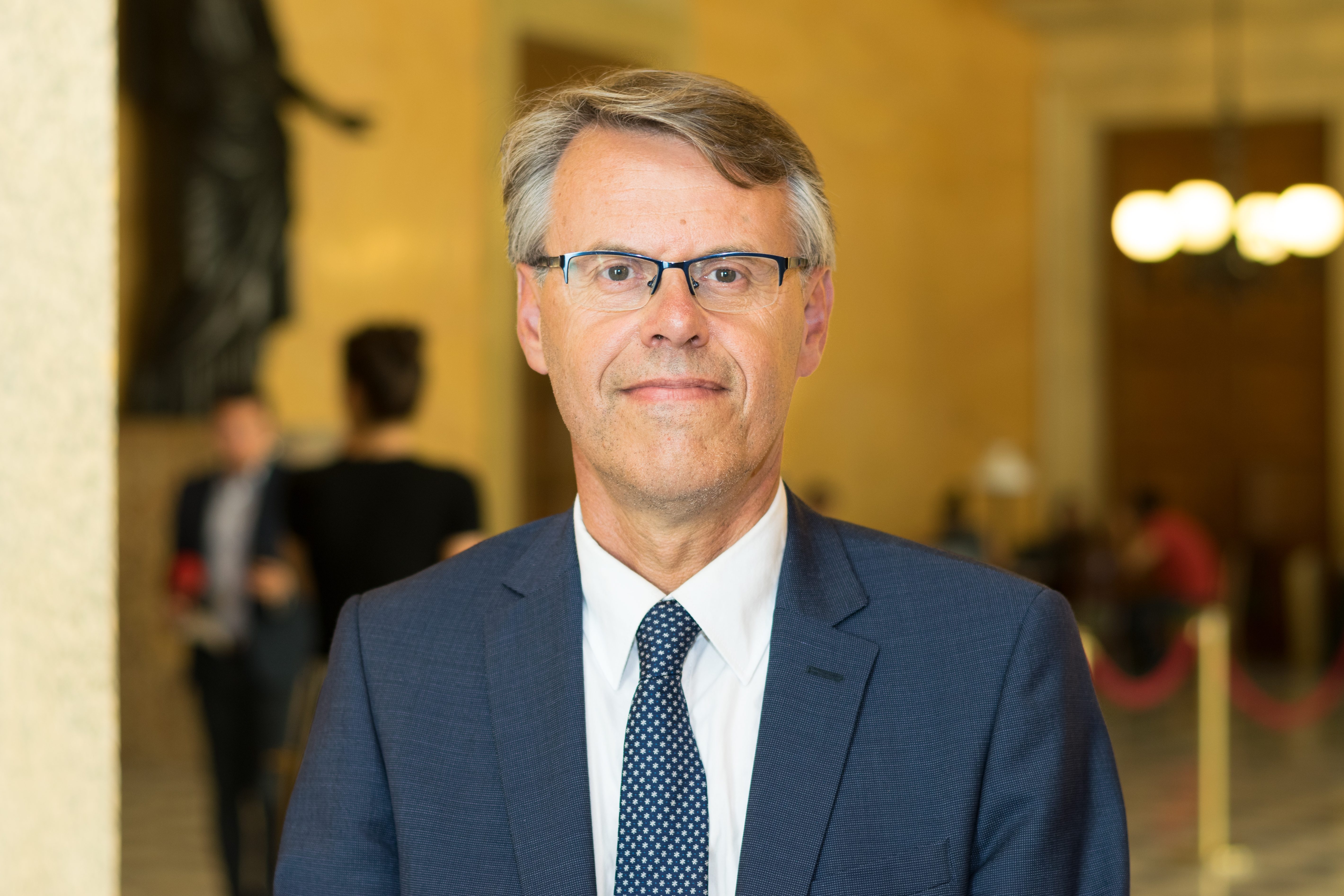 Éric Alauzet in the salle des Quatres Colonnes of the Palais Bourbon (Paris, France).